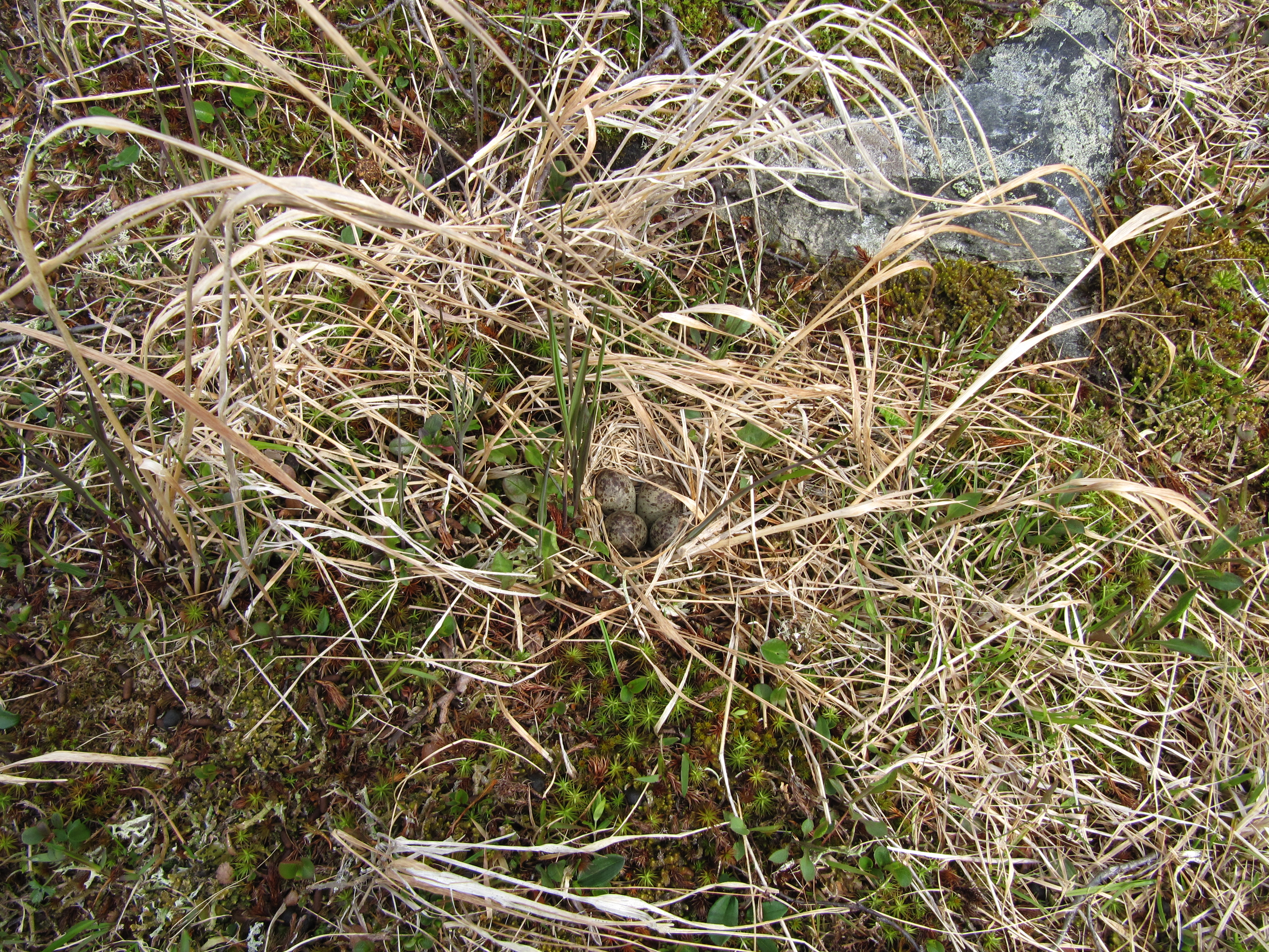 Photo of Calidris temminckii nest in Pitsusjärvi, Enontekiö, Finland